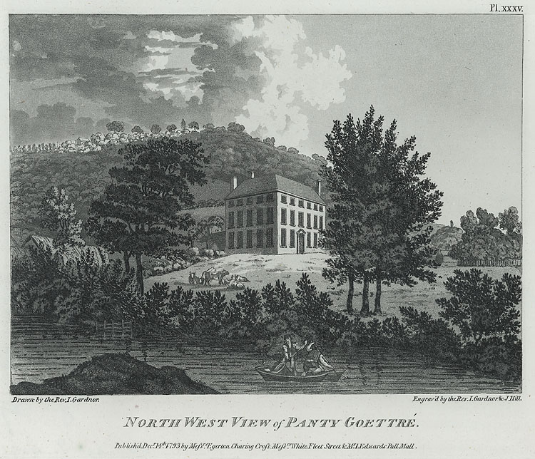 View of Pant-y-goitre House, showing fishermen on the river in the foreground.